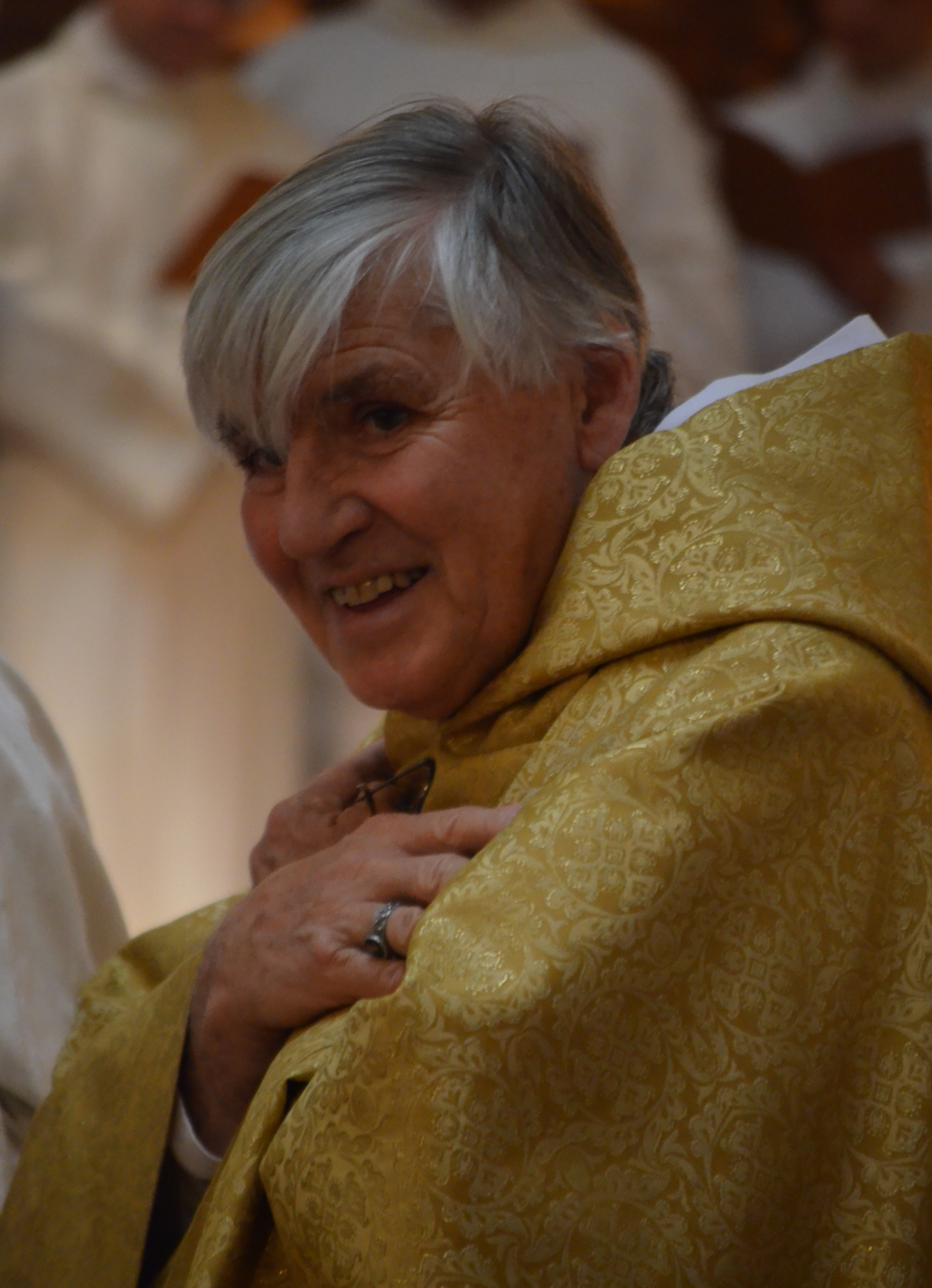 Father Daniel-Ange in Saint-Honoré-d'Eylau church (Paris).